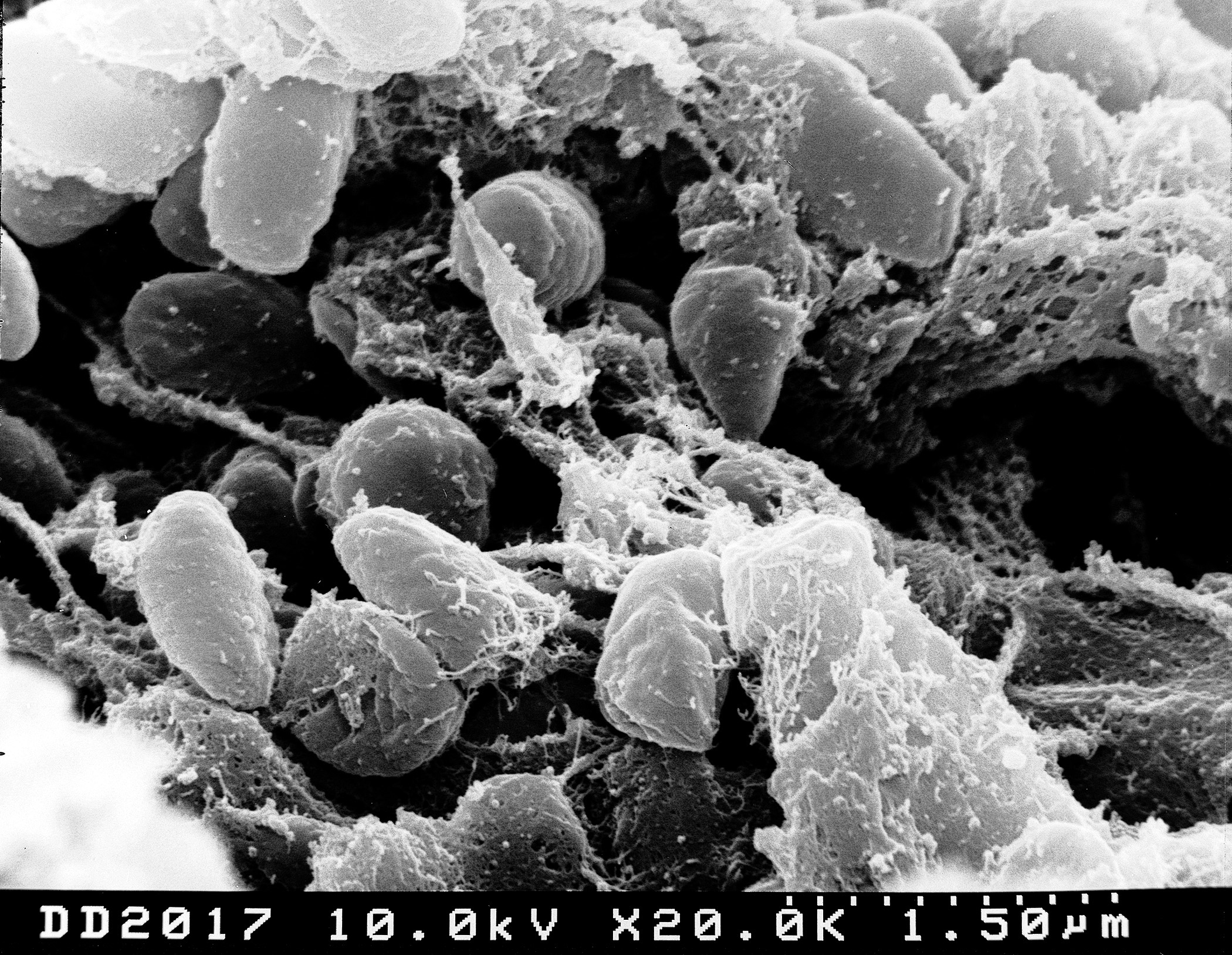 Yersinia pestis, a gram negative bacile. The cause of bubonic/black plague. in the foregut of the flea vector.